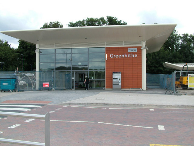 Greenhithe Station. The new Greenhithe Station is nearing completion as is the Fastrack link to Ebbsfleet to the east. Viewed from the centre reservation of the bus terminus. To the west down the hill is the ASDA superstore 900792.